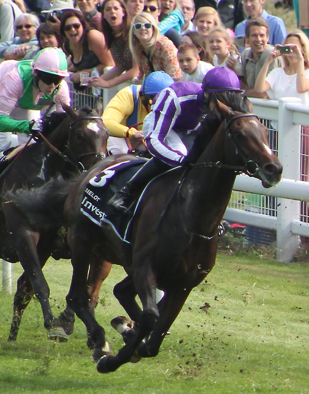 Camelot (#3) in in the purple hat and Main Sequence (#5).